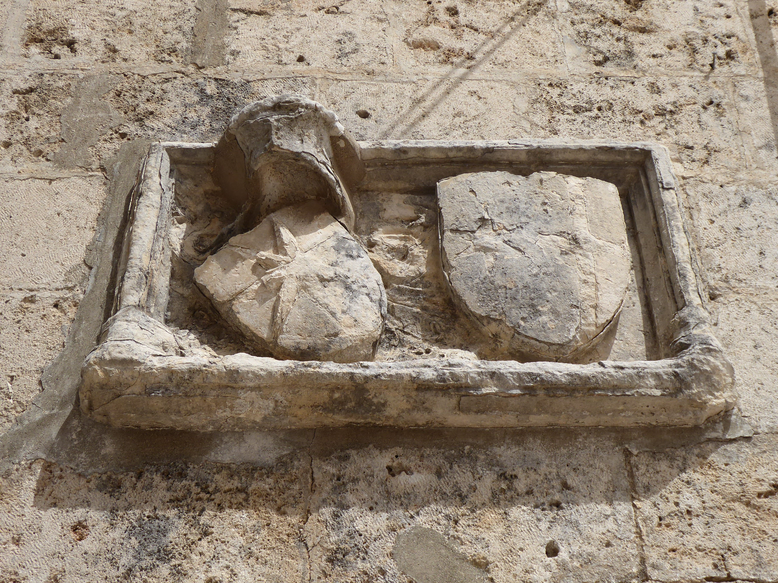 Panagia Chryseleousa (Lysos)